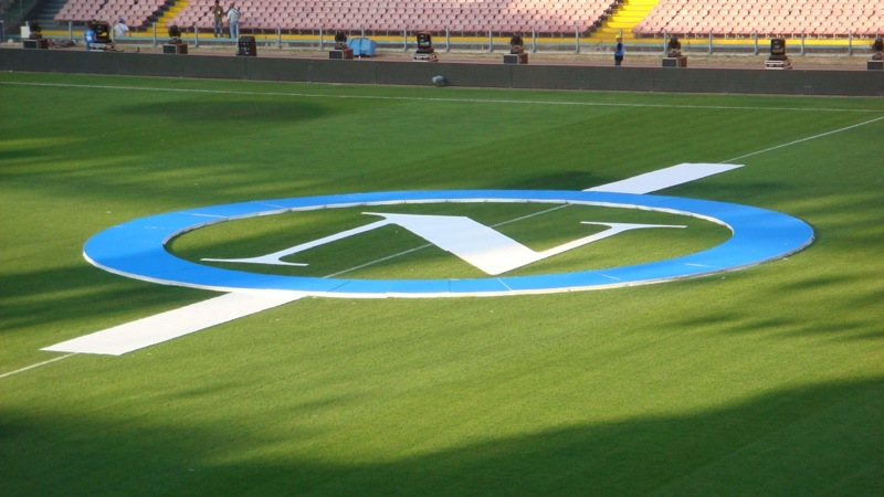 "N" logo of SSC Napoli on field.